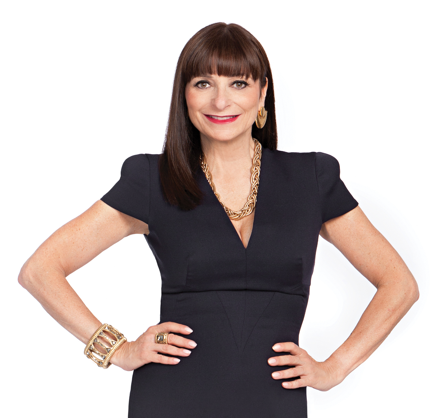 Jeanne Beker (born 19 March 1952) is a Canadian television personality, author and newspaper columnist.